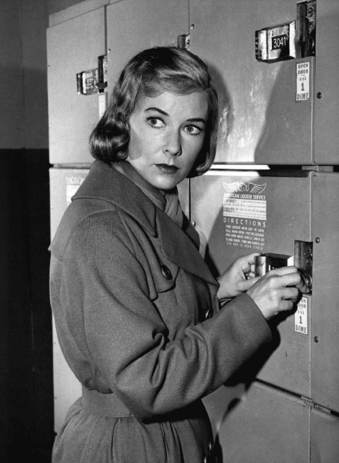 Photo of Vera Miles as Millicent Barnes from the television program The Twilight Zone. The episode is "Mirror Image".